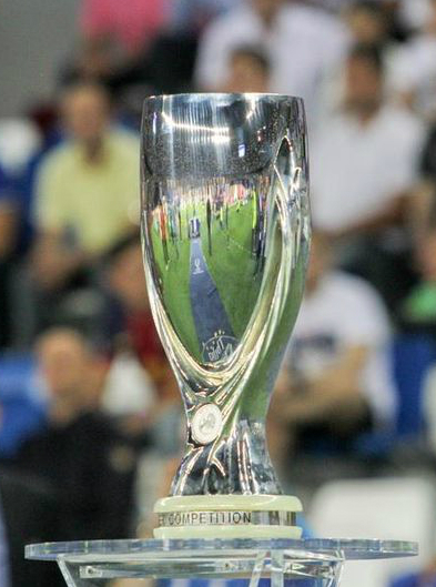 A picture of the UEFA Super Cup trophy